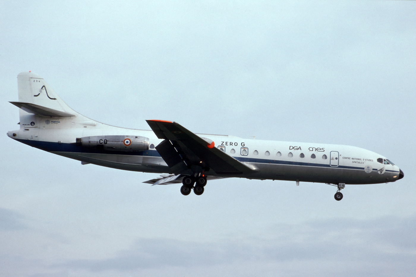 Caravelle 'Zero G'. The French 'vomit comet' (vomi comète) landing at Brétigny sur Orge during the open house on 27 September 1992. Se210-6R 234/CQ is preserved/dumped in bad condition at Bordeaux-Merignac. The plane was replaced by a civilian Airbus A300 F-BUAD.